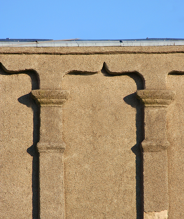 the great synagogue of Lutsk